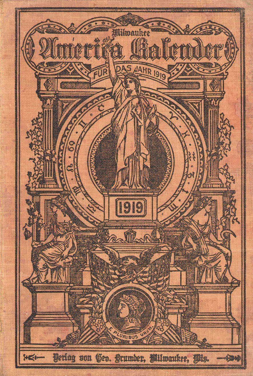 Cover of a 1919 Amerika Calendar (Almanac)